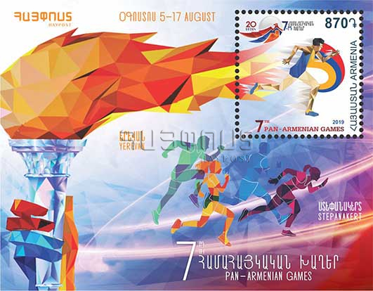 Sport. Seventh Pan-Armenian Games Date of issue: August 20, 2019 Designer: David Dovlatyan Printing house: Cartor, France Stamp size: 30,0 x 30,0 mm S/sheet size: 90,0 x 70,0 mm Print run: 15 000 pcs